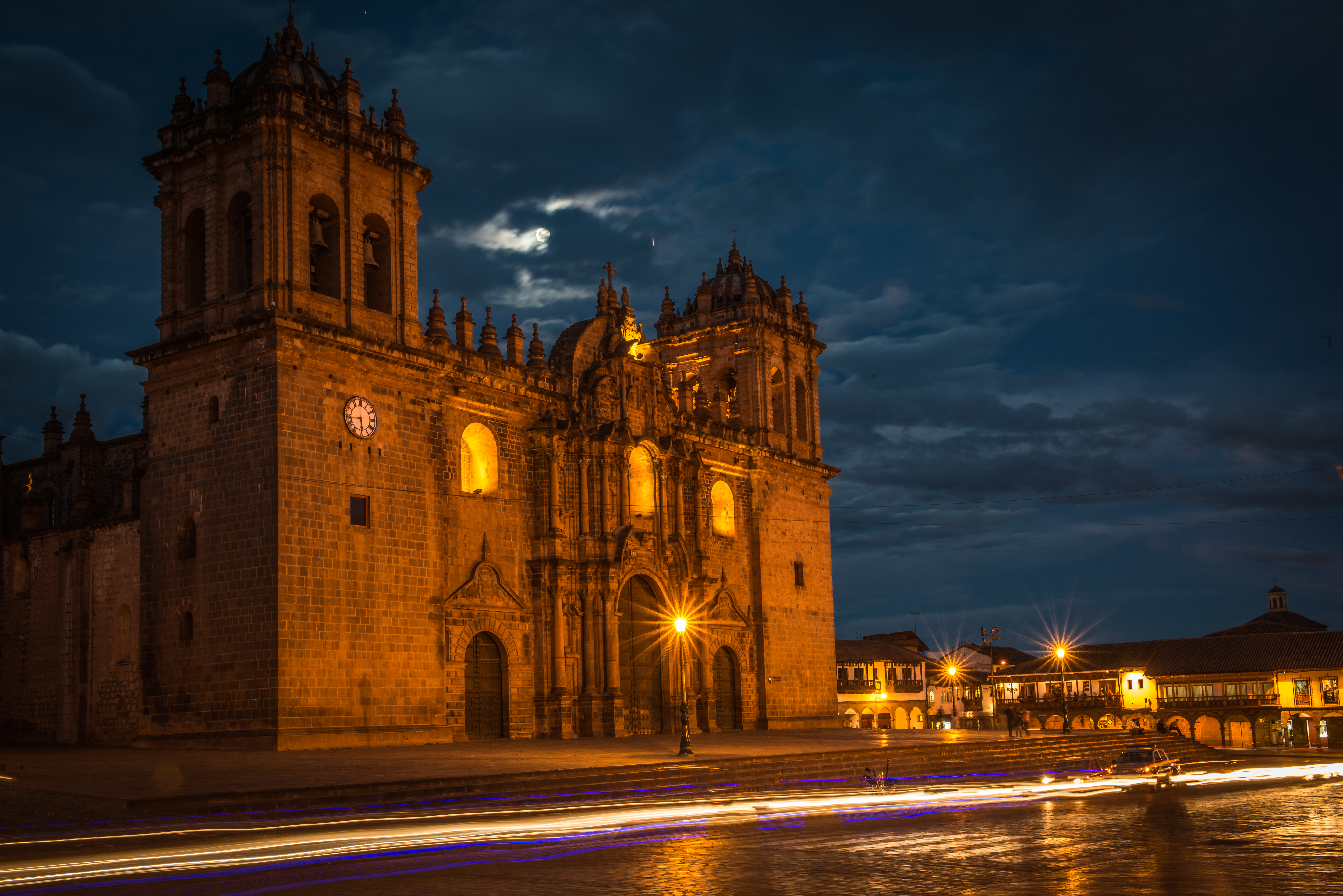 Cathedral of Santo Domingo at night in Cusco, Peru.